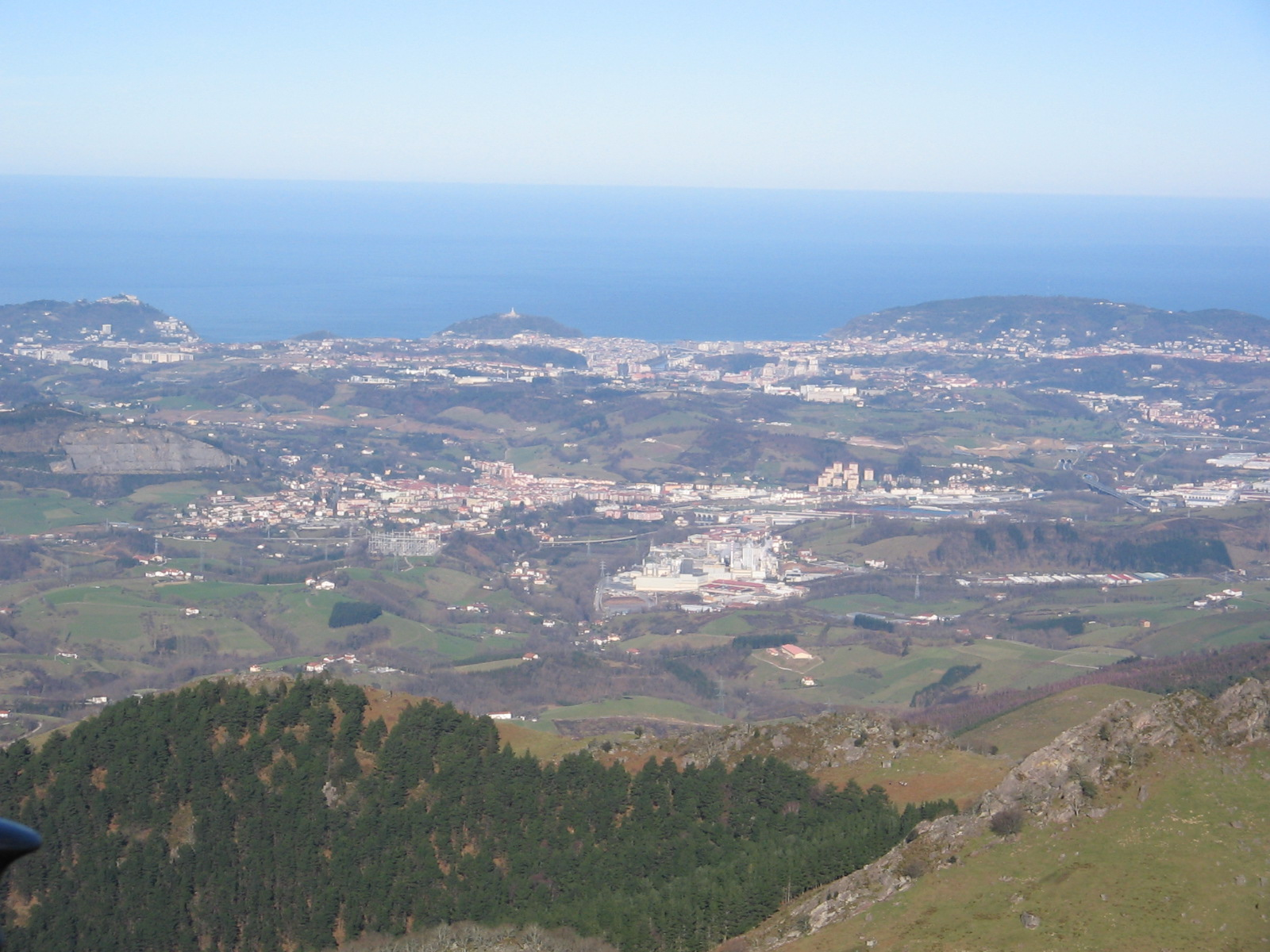 Donostia-San Sebastián and the ocean (Bay of Biscay) in the background, Hernani in the foreground